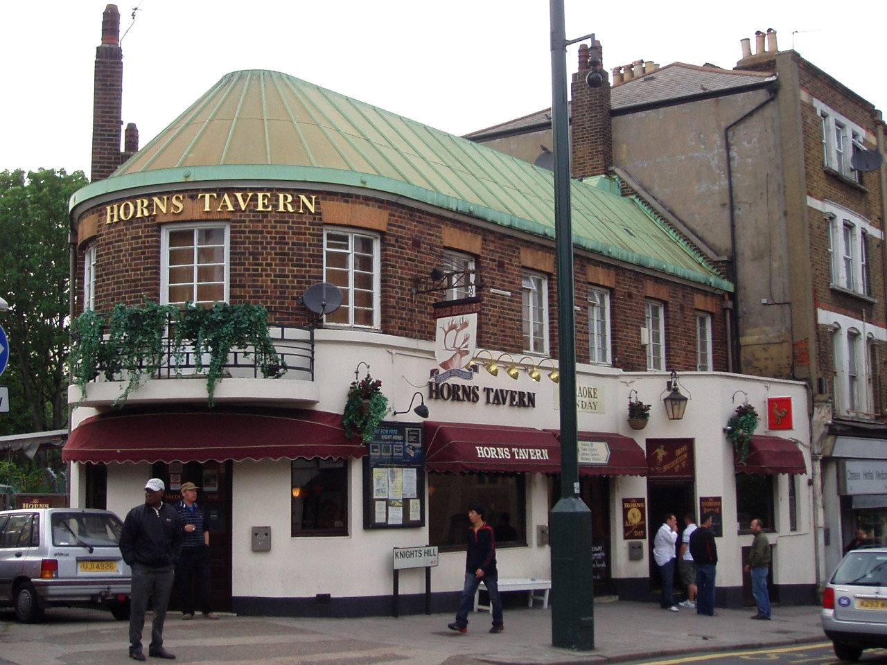 A pub opposite West Norwood station. Address: 40 Knights Hill. Owner: Enterprise Inns; Unique (former); Courage (former). Links: Fancyapint Beer in the Evening